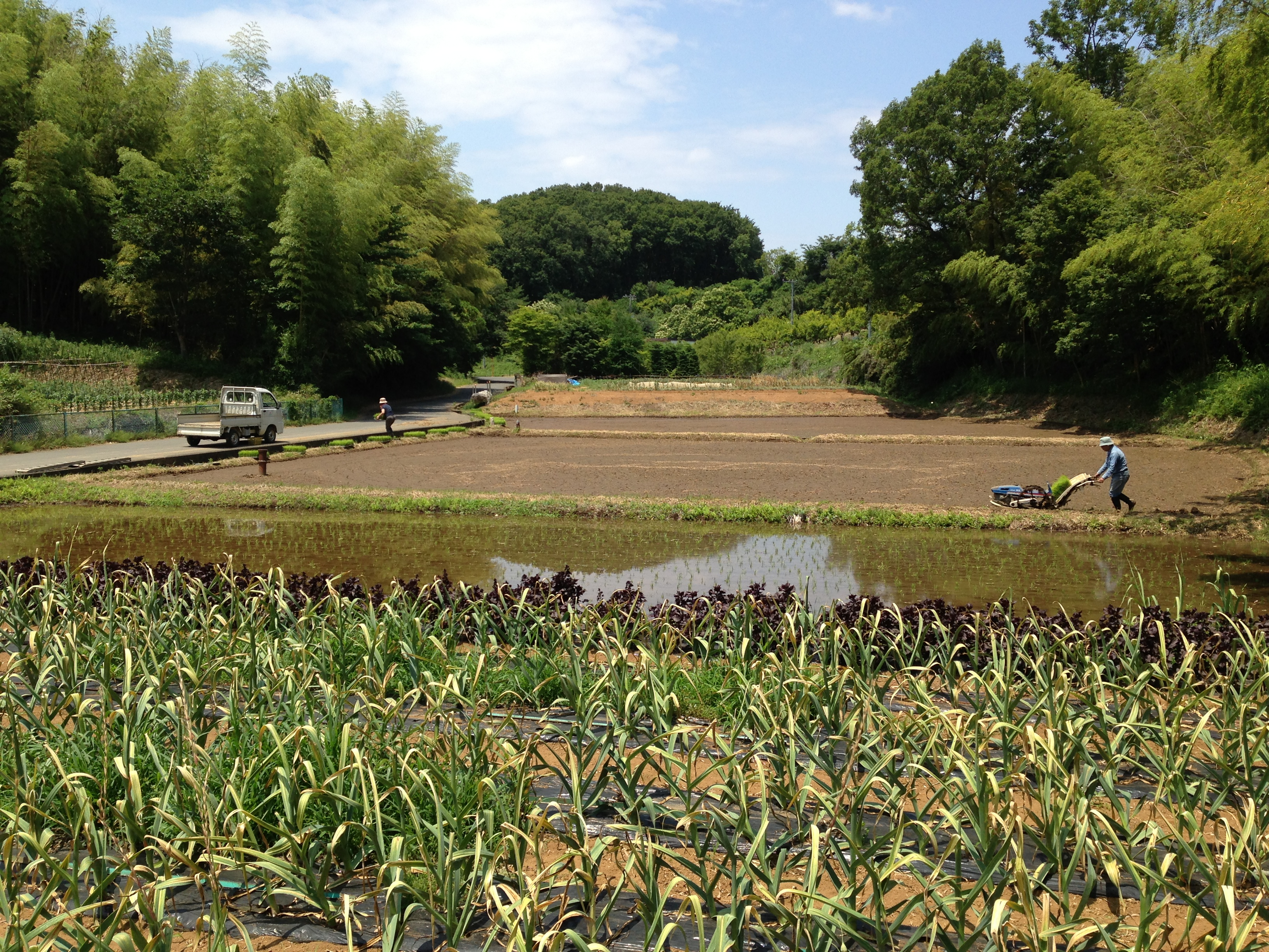 Paddy Field in Kurokawa, Kawasaki